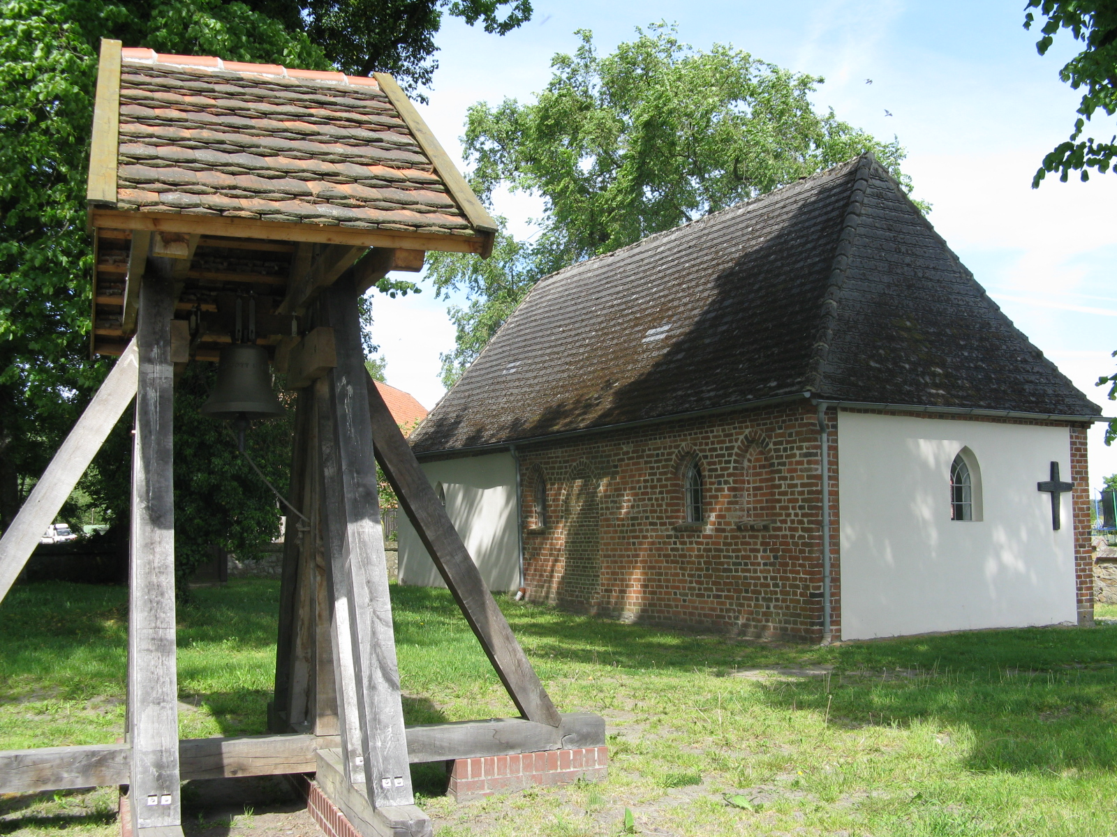 Church in Bandekow, district Ludwigslust, Mecklenburg-Vorpommern, Germany